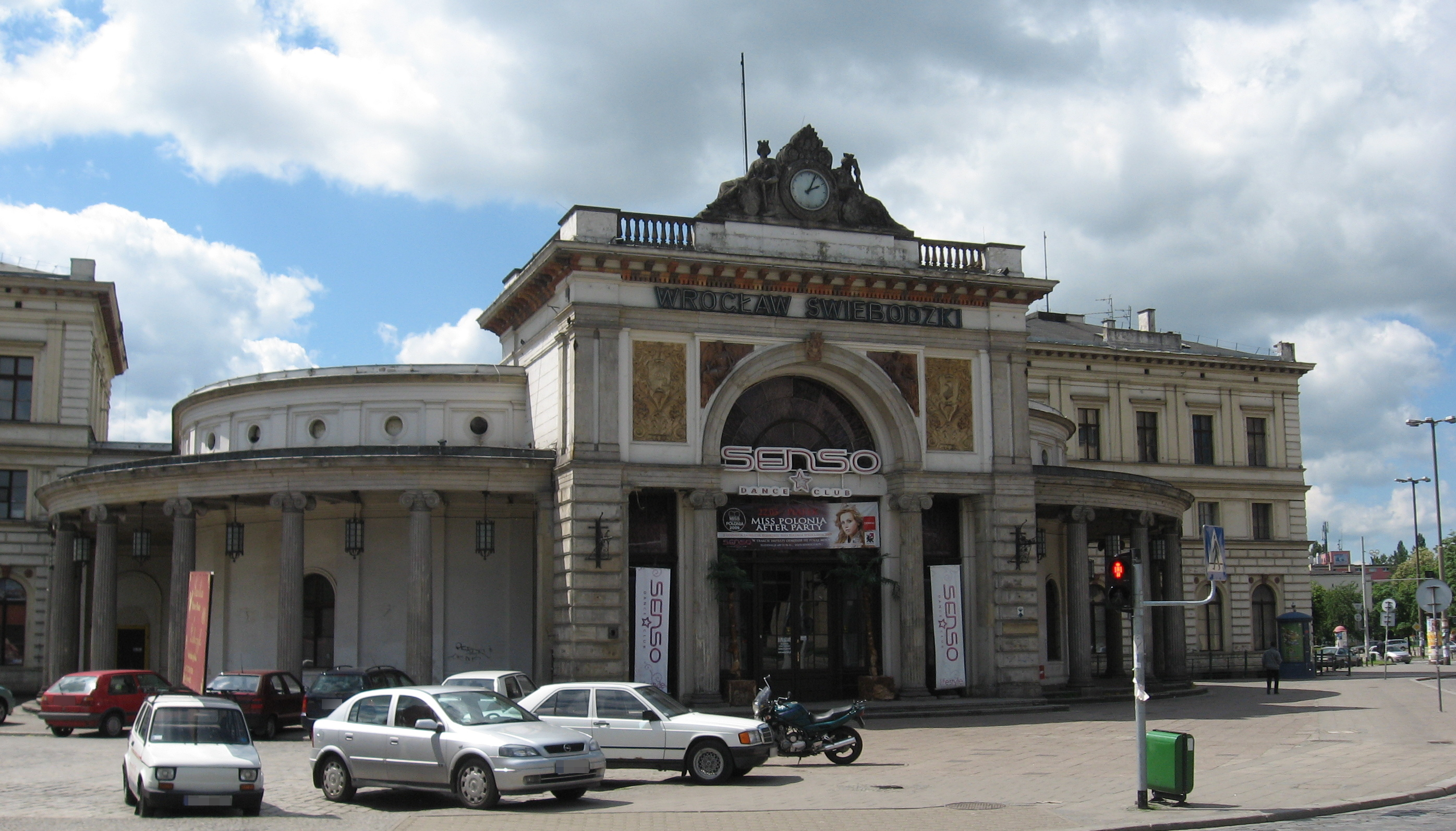 Świebodzki Station – closed since 1991 train station in Wrocław, now there are the theatre, night club and firms.